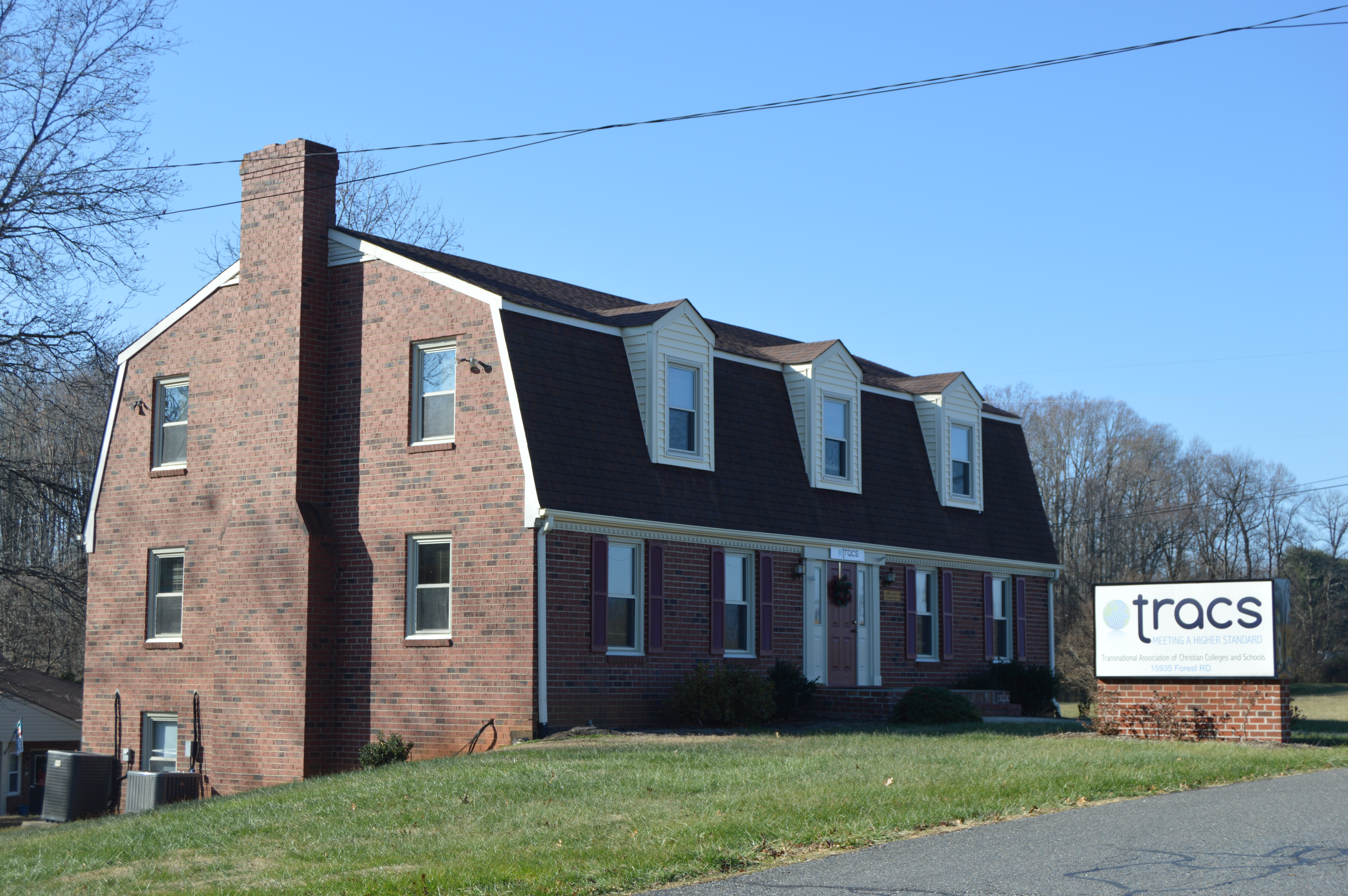 Front and eastern side of the offices of Transnational Association of Christian Colleges and Schools, located at 15935 Forest Road (U.S. Route 221) in Forest, Virginia, United States.